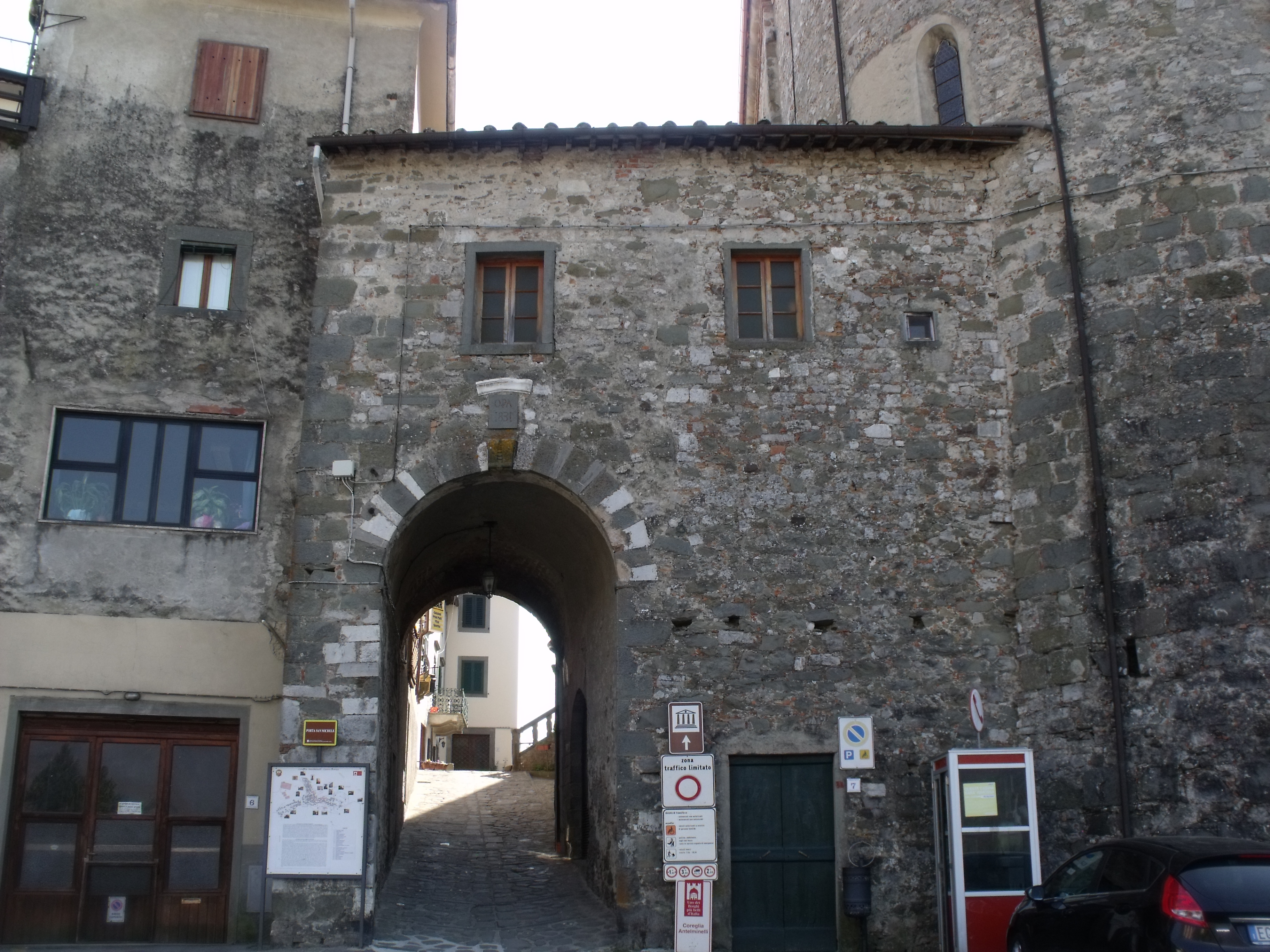 City Gate Porta a Piastri seen from the outside, Coreglia Antelminelli, Province of Lucca, Tuscany, Italy